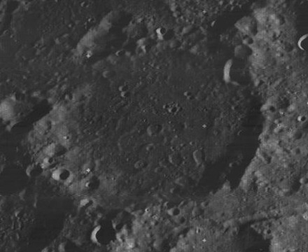 Oblique view of Eötvös crater, on the far side of the moon, facing roughly south.